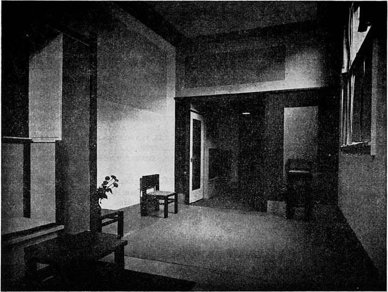 Jan Wils (architect) and Vilmos Huszar (painter). Berssenbrugge photographic studio, The Hague. 1922. Photo. Rotterdam, Netherlands Architecture Institute. From / Afkomstig uit: Bouwkundig Weekblad, 43e jaargang, nummer 16 (22 april 1922): p. 150. Paul Overy ([1991] 2000) De Stijl, London: Thames & Hudson, ill. 74, p. 94 ISBN 0500202400